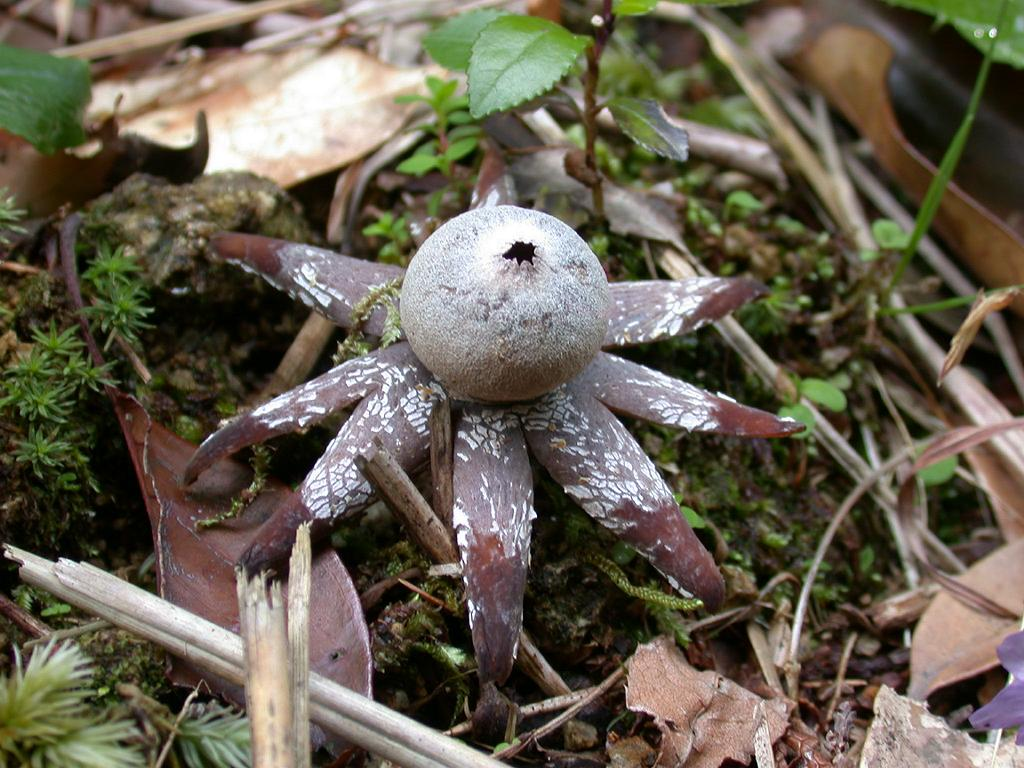 Hygroscopic earthstar (Astraeus hygrometricus) near Natikatuura town,Wakayama Pref. Japan